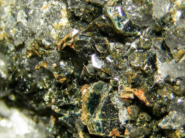 Iowaite Locality: Palabora mine, Loolekop, Phalaborwa, Limpopo Province, South Africa (Locality at ) Field of view 15 mm. Specimen and photo Leon Hupperichs.